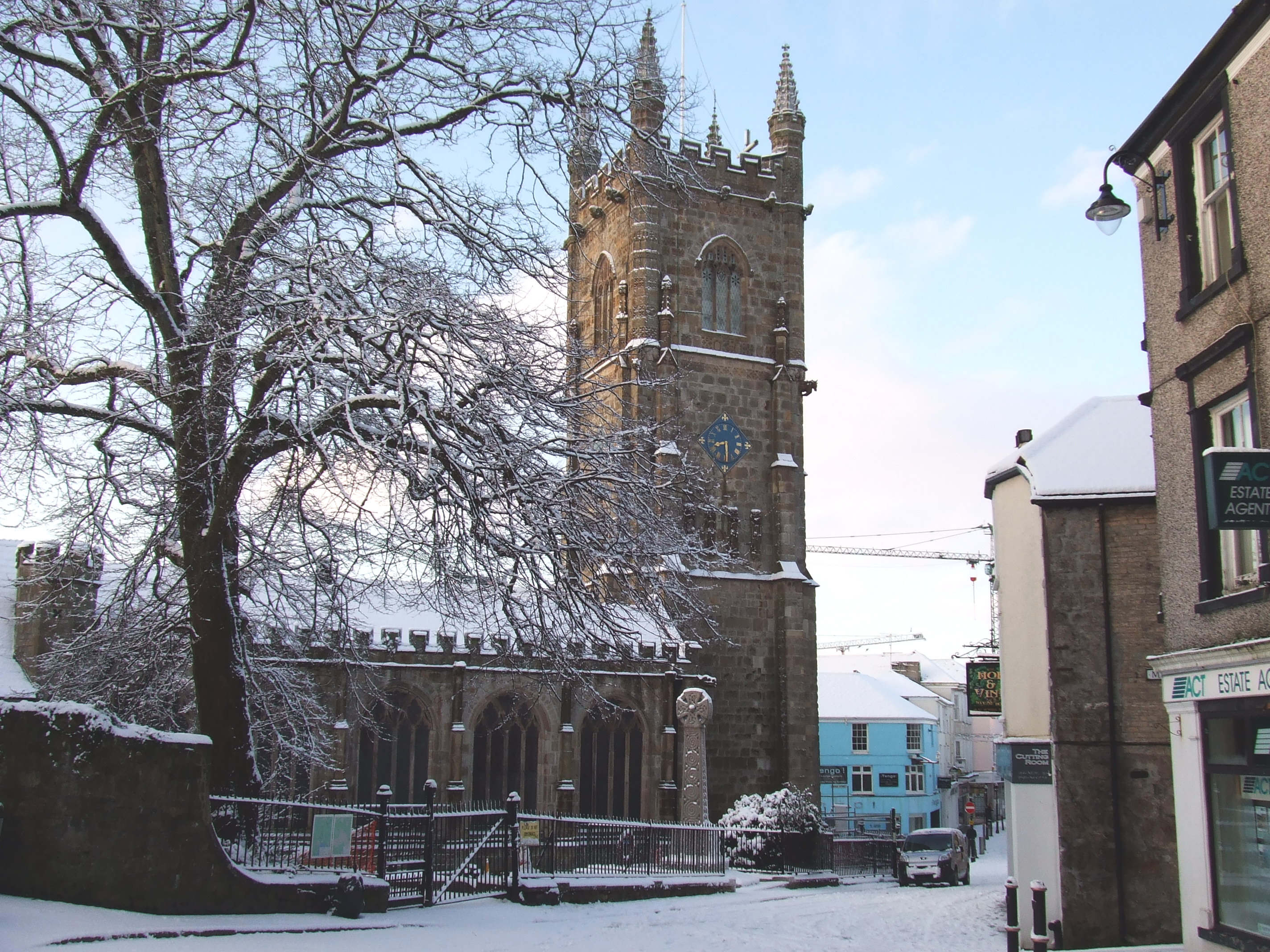 Nave and west tower of Holy Trinity parish church, St Austell, Cornwall, seen from the northeast